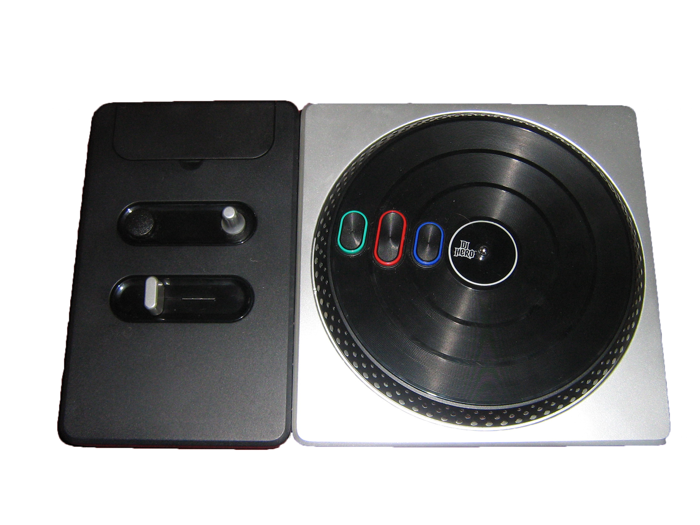 The DJ Hero turntable used with the PS3 console. Edited to remove background in Photoshop CS4.